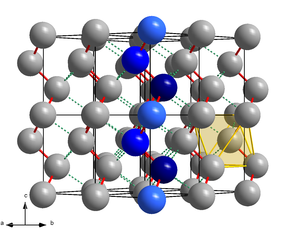 Crystal structure of tellurium consisting of Te chains along the 31-screw axis parallel to c-axis. Distorted octahedral coordination sphere (2+4) of one atom is highlighted as yellow octahedron. One chain is highlited in blue colors where the dark blue atom is situated on c = 1/3, middle blue on c = 2/3 and light blue on c = 0. Thick red bonds represent covalent bonds between atoms in the chain (d = 284 pm), dashed green bonds secondary contacts between chains (d = 349 pm).